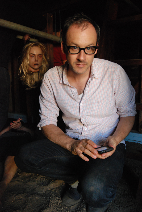 Director Nicholas McCarthy on the set of THE PACT (2012). Other information This was a photograph taken on set of THE PACT of the director that has been widely used in articles about the film and its director.